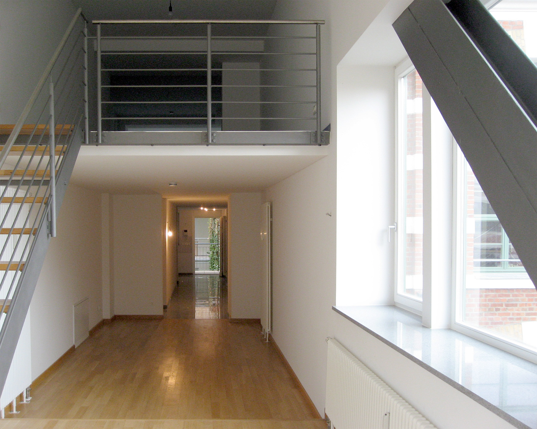 Kammgarnspinnerei in Leipzig, in the lower bridges loft apartment (connecting bridge between “Hochbau Sued” and “Hochbau West” on the river Weisse Elster), outside the window water-side of the “Hochbau West”